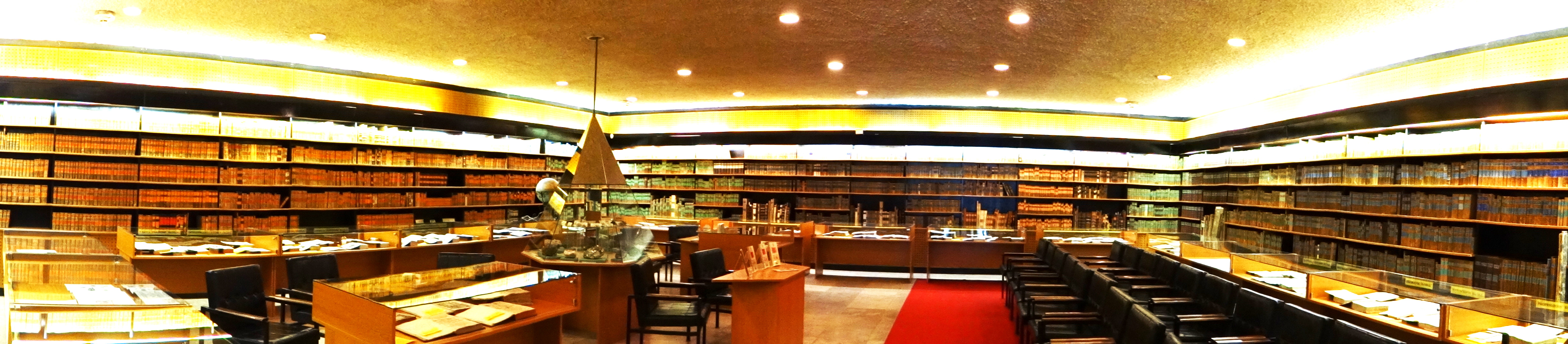 Selmec Museum Library, Miskolc, Hungary, Panoramic photo